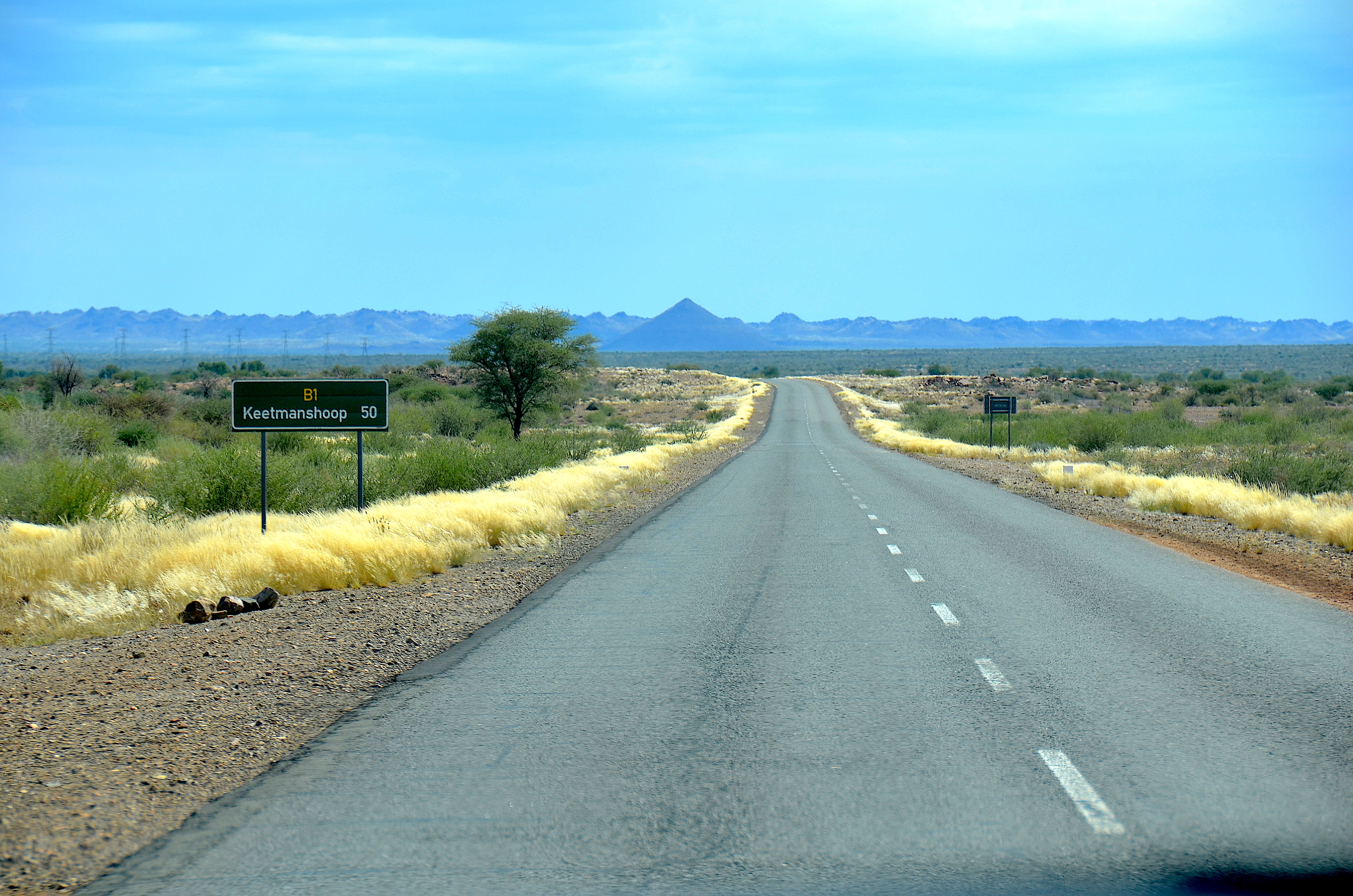 National road B1, south of Keetmanshoop, Namibia (2017)